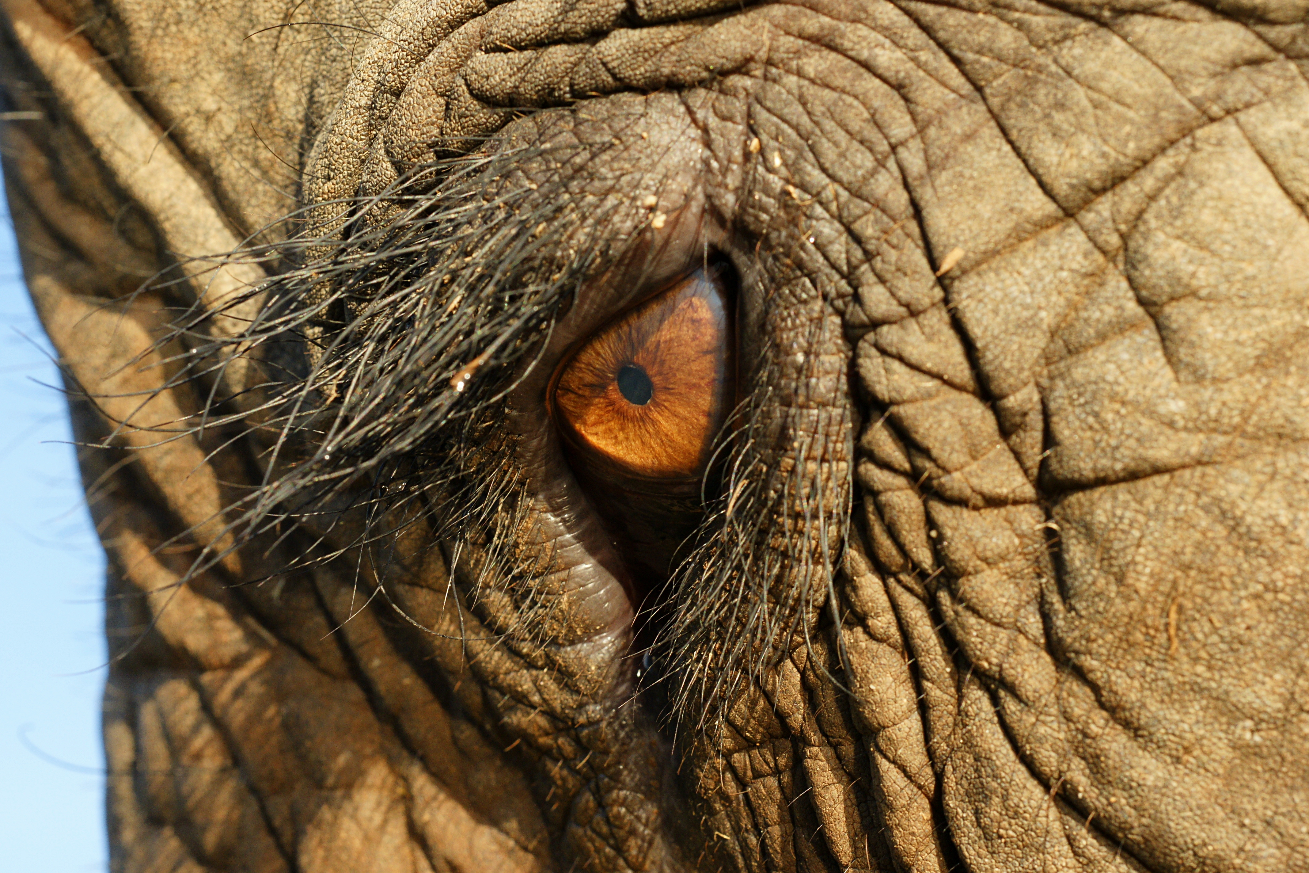 The eye of an asian elephant at Elephant Nature Park, Thailand